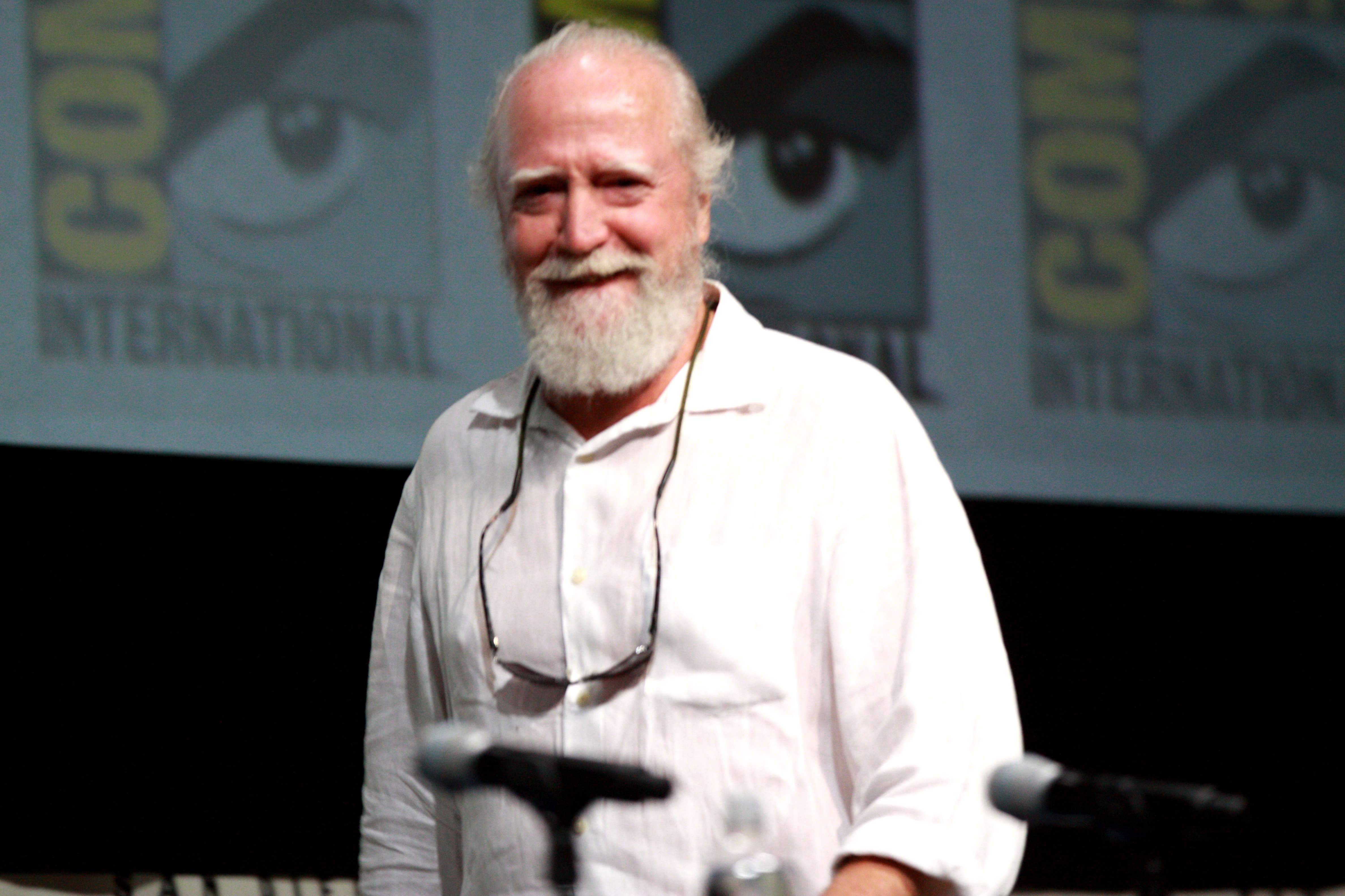 Scott Wilson speaking at the 2013 San Diego Comic Con International, for "The Walking Dead", at the San Diego Convention Center in San Diego, California.